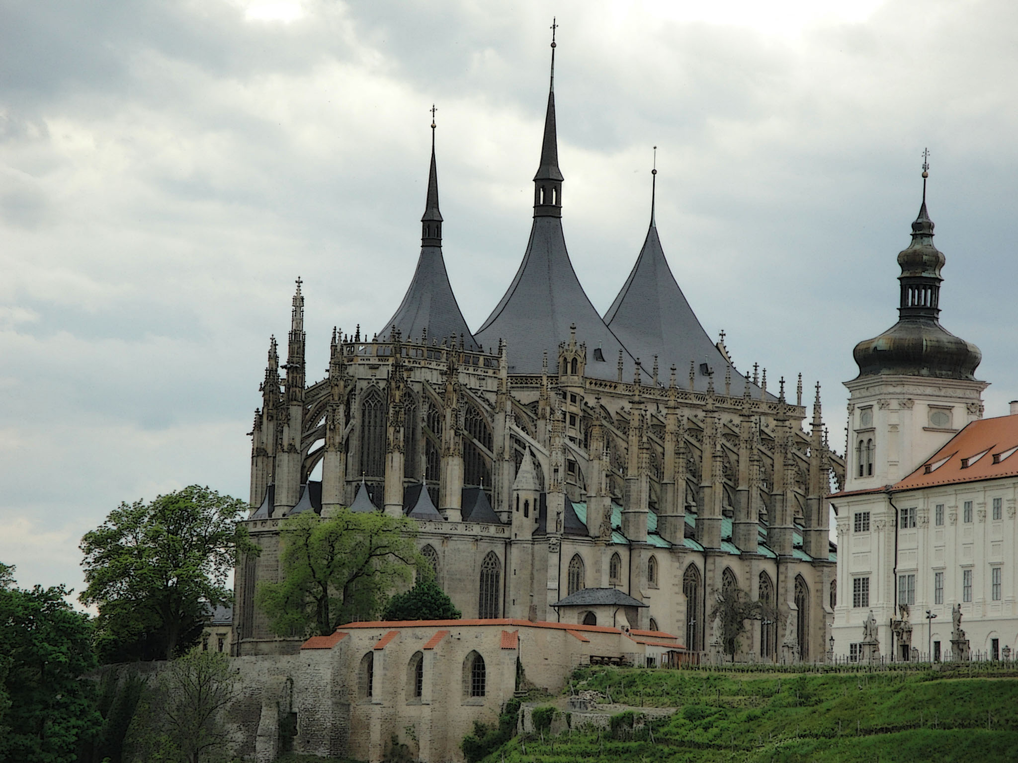 St. Barbara's Church in Kutná Hora